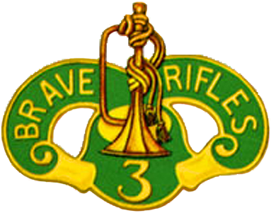 United States Army 3rd Cavalry Regiment Distinctive Unit Insignia